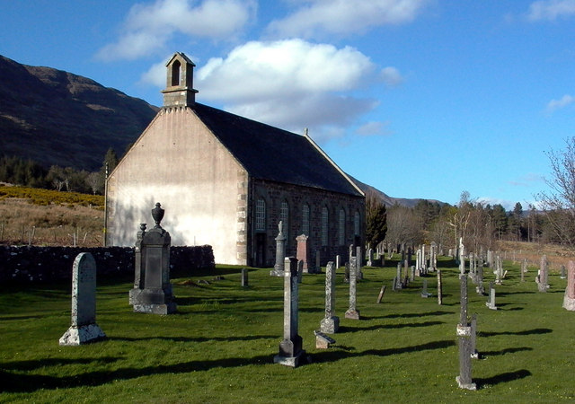 Clachan Church, Applecross Clachan Church, c.1817, stands on the site of one of Scotland's premier Celtic Christian seetlements, the community of Maelrubha, founded in 673 AD.